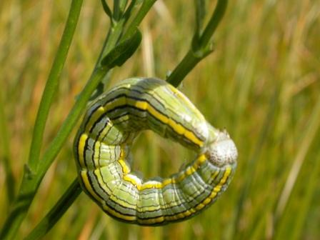 Cucullia asteris, larva. Location: the Netherlands - Ameland - Oerd